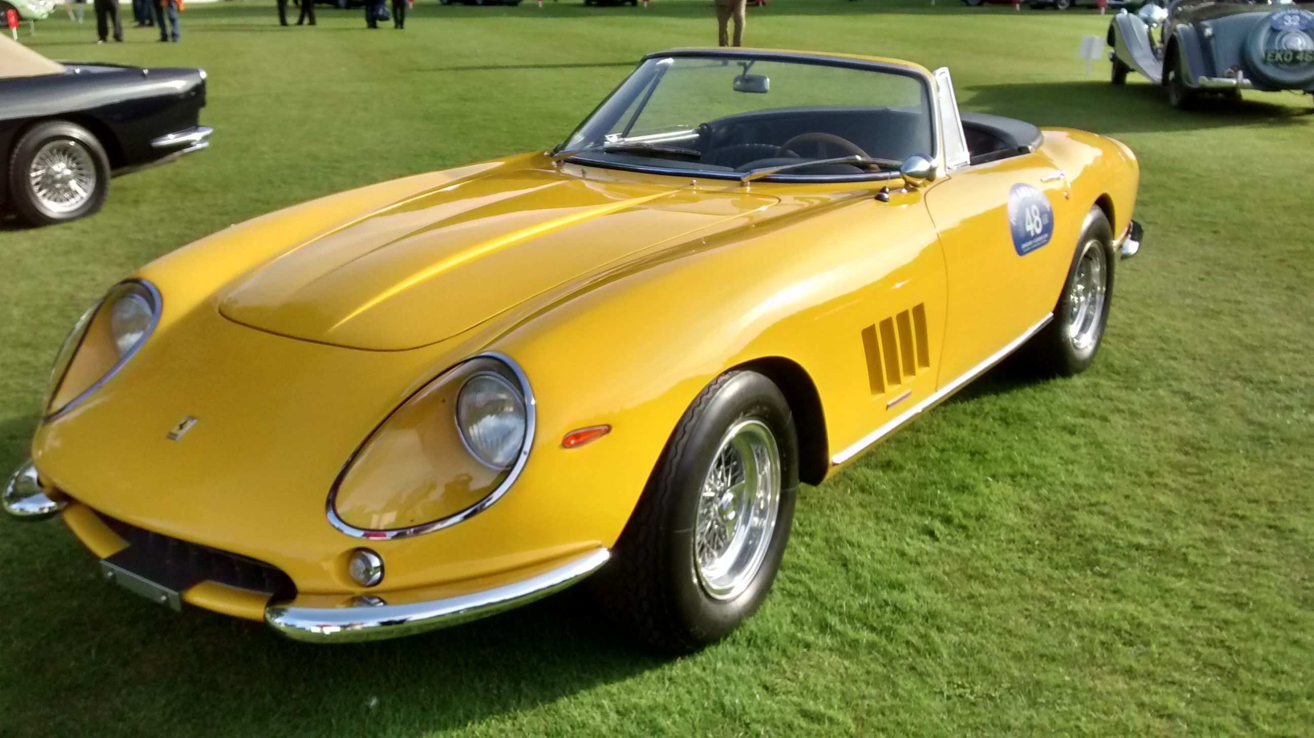 Car awarded the RAC Spirit of Motoring Award. Owner: Jon A. Shirley, President of Microsoft from 1983 through 1990. See Sports Car Digest web page for details